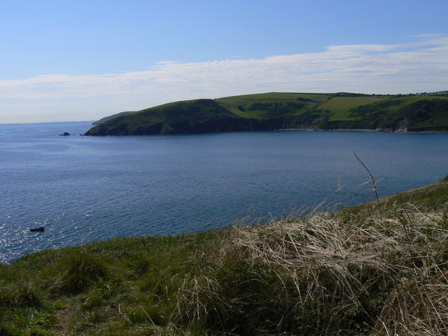 Portnadler Bay from Looe Island A view from the cliffs of Looe Island, over the bay to Hannafore.